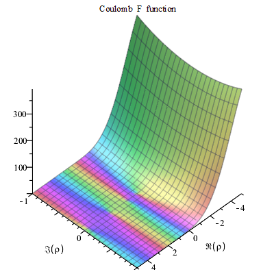 Coulomb F function plot